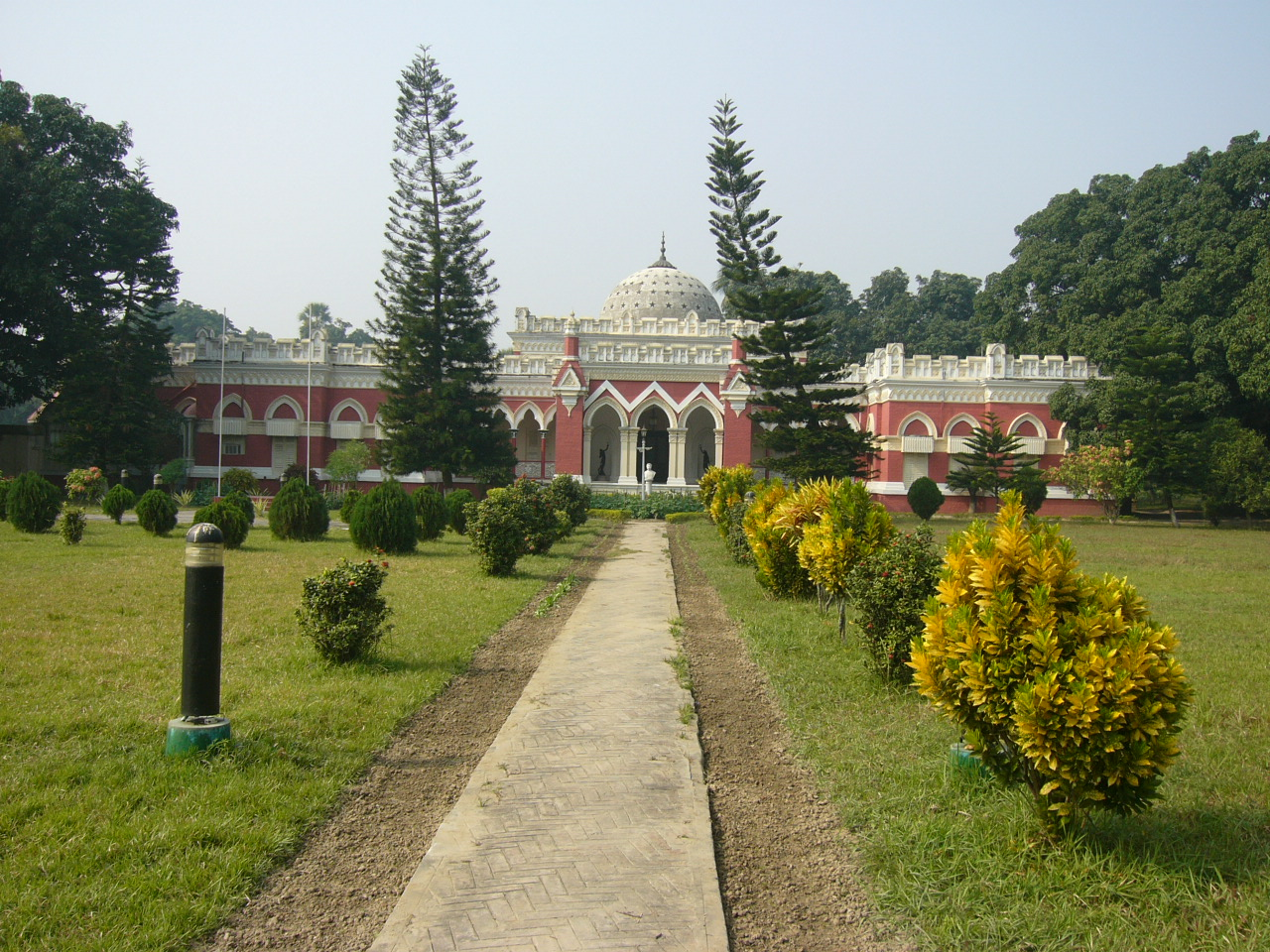 Natore, A District of Bangladesh Authour Shahnoor Habib Munmun Uttara gana bhanan has a beutiful name "dighapatia house" why dighapatia named? beacause This house back has a big dhiga for prevent any harmfull activitis from any way...Md.Zahidur Rahman Shajol,Cell:071721-889675.